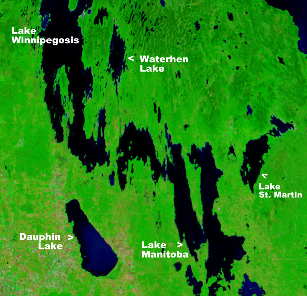 Portion of NASA map showing Dauphin Lake in Manitoba (Captions have been added by Kayoty)